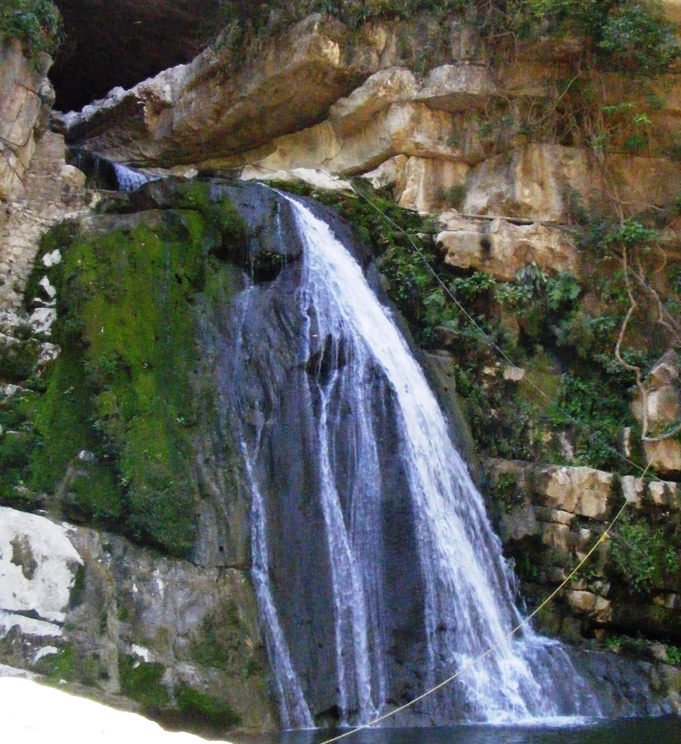 Waterfall and Cave of Chorreadero. Chiapa de Corzo.